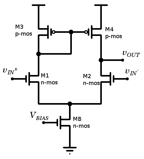 OTA amplifier in CMOS tecnology